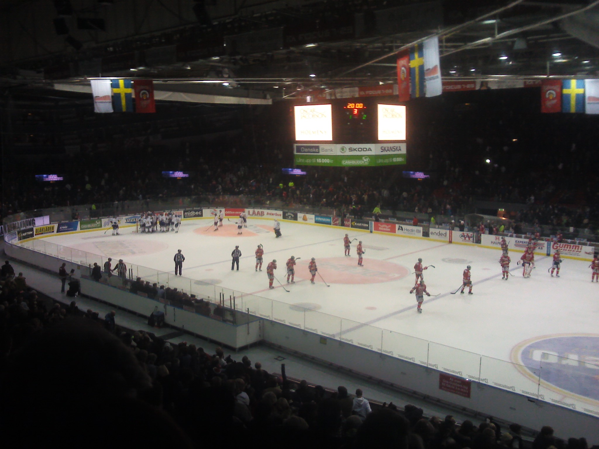 The Frölunda HC-HV 71 (1-2) Elitserien ice hockey game in Scandinavium in Gothenburg, Sweden. 18 February 2012